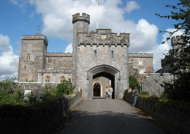 Gatehouse, Powderham Castle